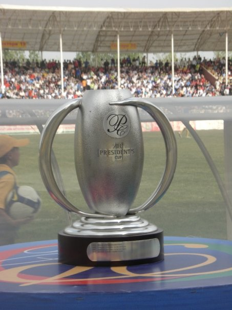 The AFC President's Cup; photographed at halftime of the 2009 AFC President Cup finals at Tursunzoda, Tajikistan.